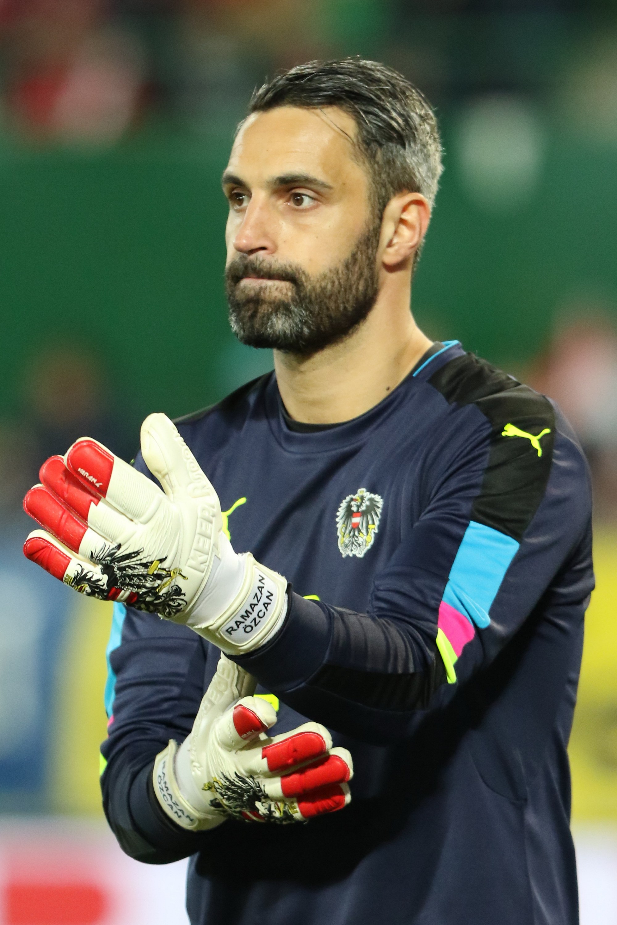 Friendly match – Austria (red shirts) vs. Turkey (blue shirts) 1–2 (1–1) on 2016-03-29 in Ernst-Happel-Stadion, Vienna – The photo shows the Austrian goalkeeper Ramazan Özcan (GK, FC Ingolstadt 04).